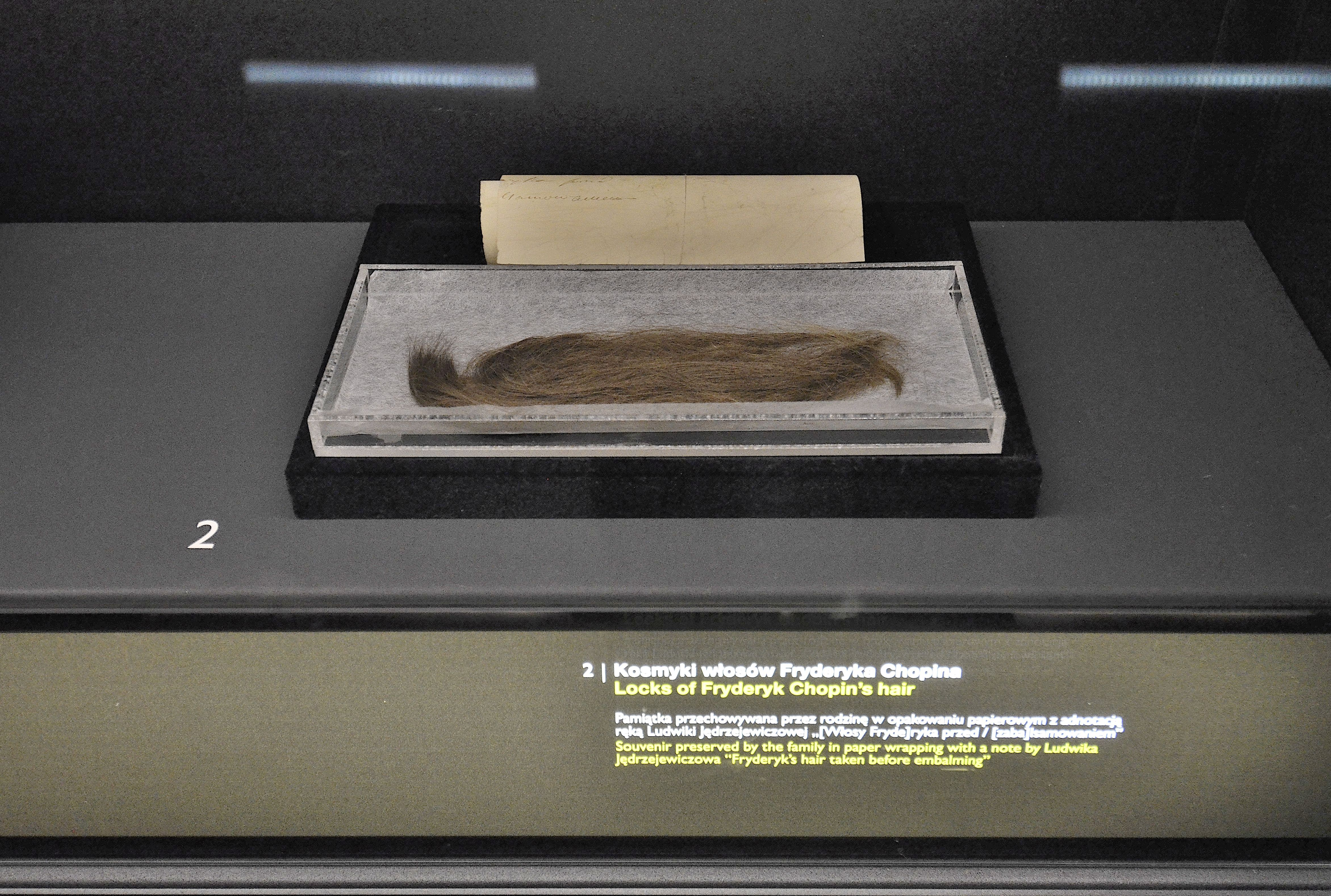 Locks of Frederick Chopin's hair displayed in the Chopin Museum in Warsaw